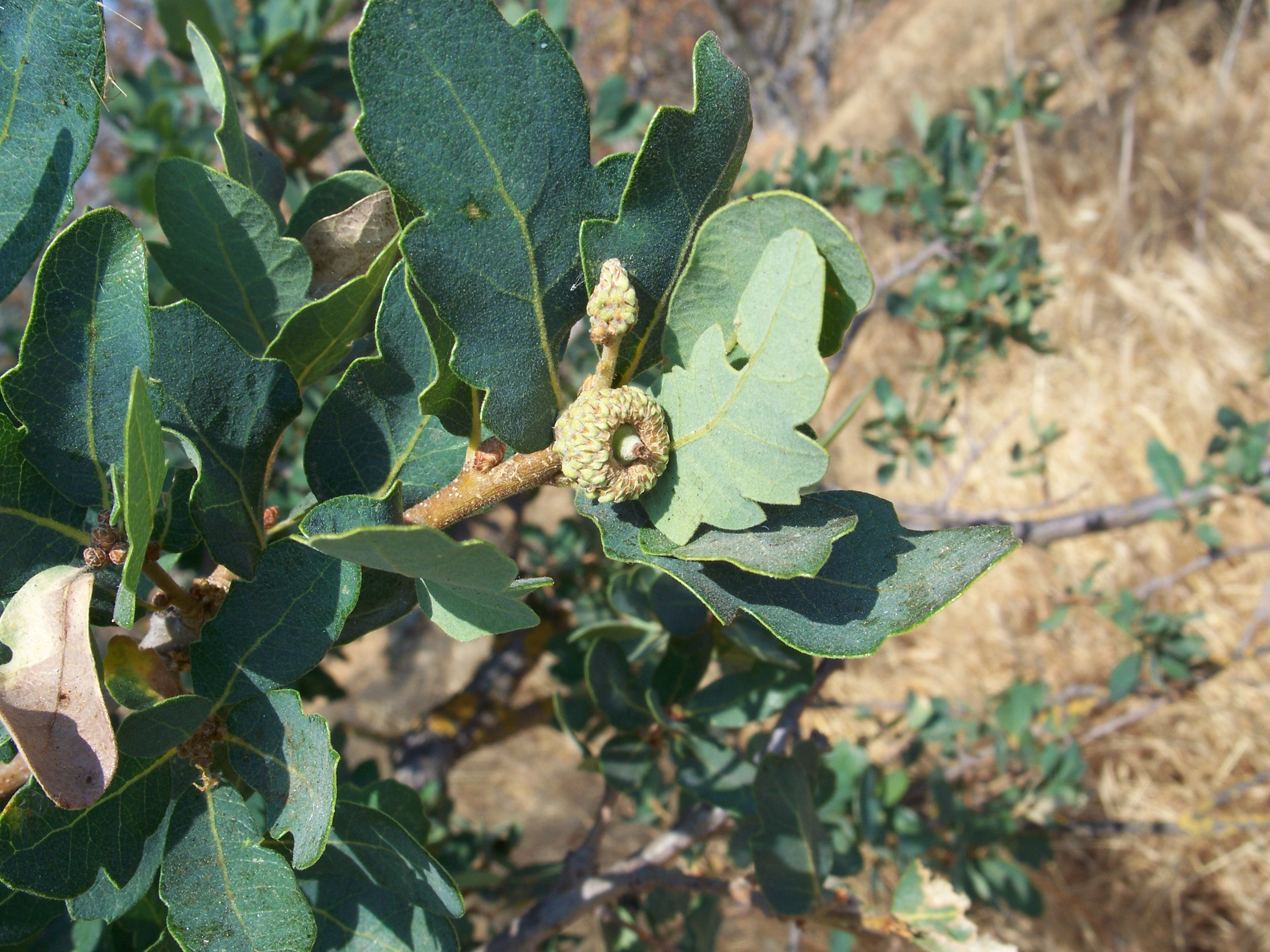 Blue Oak